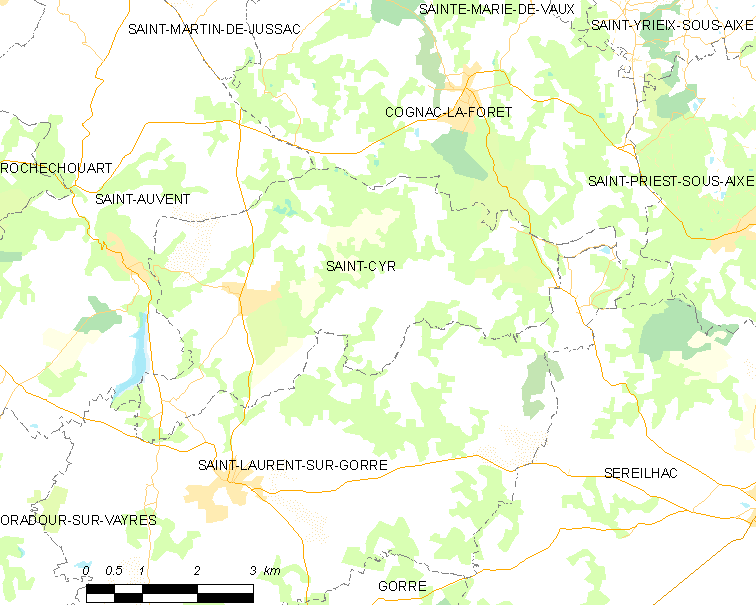 Map of French municipality Saint-Cyr